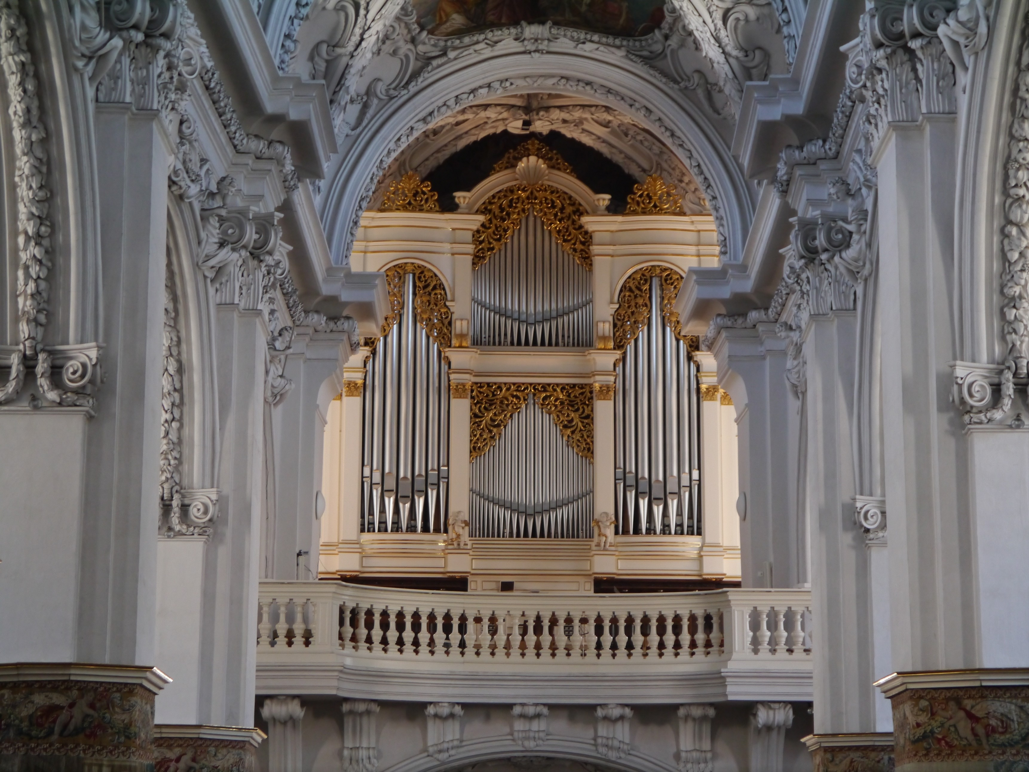 Organ of Kremsmünster Abbey church, Kremsmünster, Upper Austria